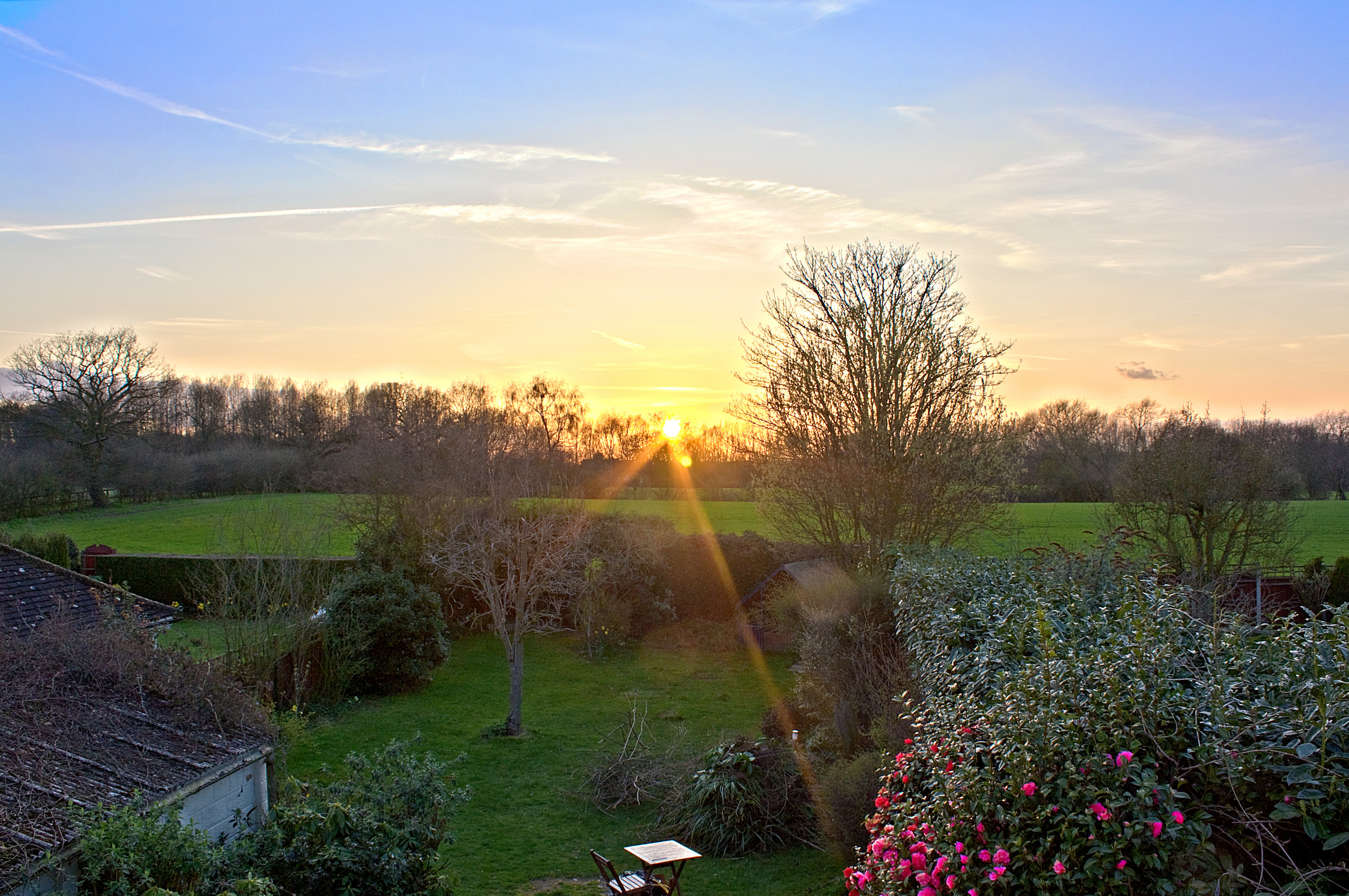 The farmlands in the greenbelt behind the northern-most row of houses in Shenfield.